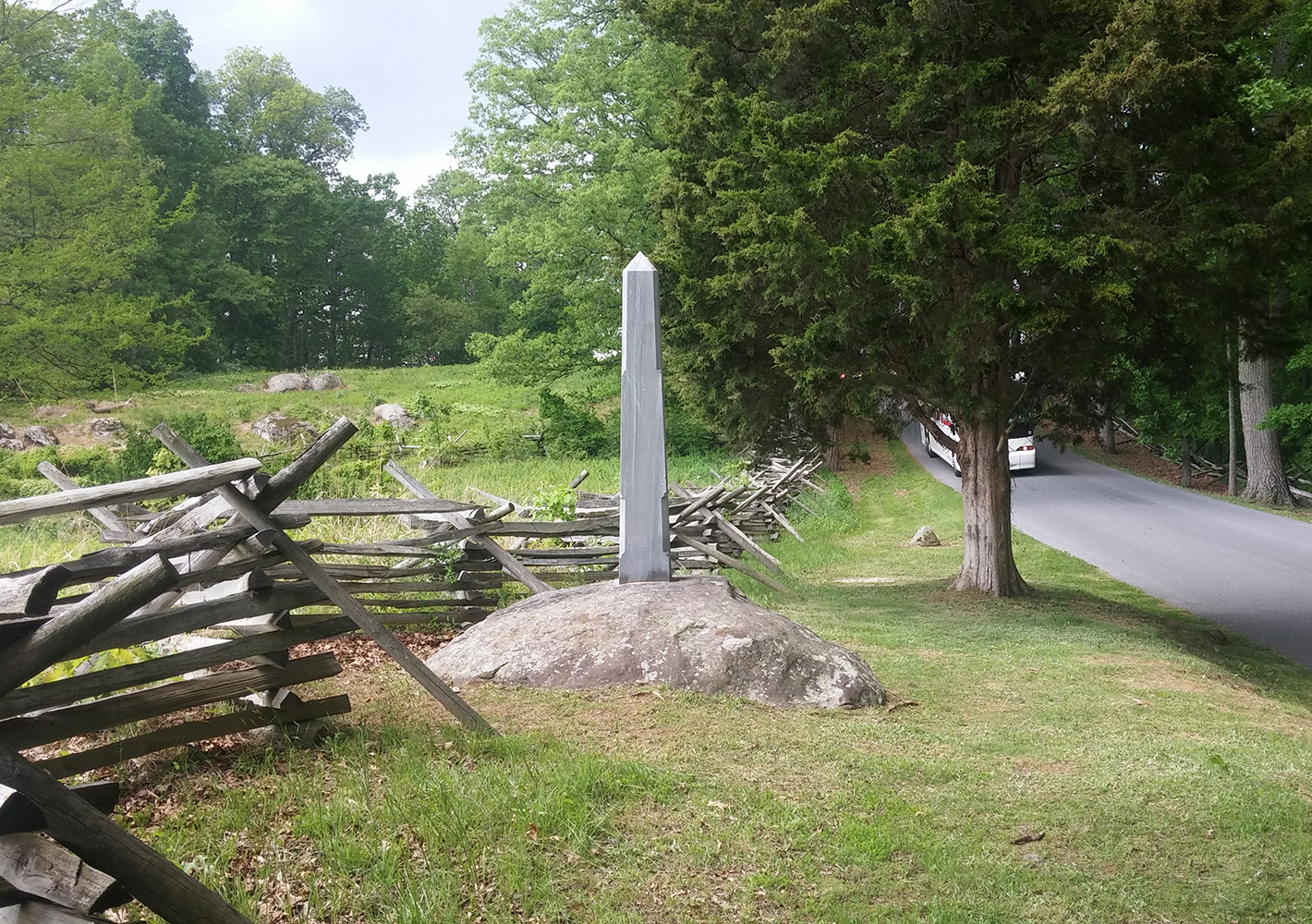 Samuel Kosciuszko Zook mjnument at Gettysburg